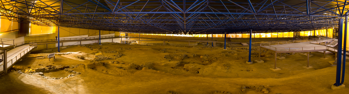 Cueva Pintada